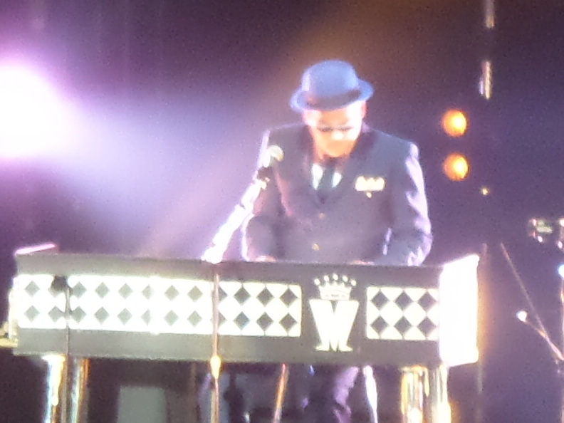 Madness Manchester Arena Dec. 19, 2014 Mike Barson (keyboardist for Madness)